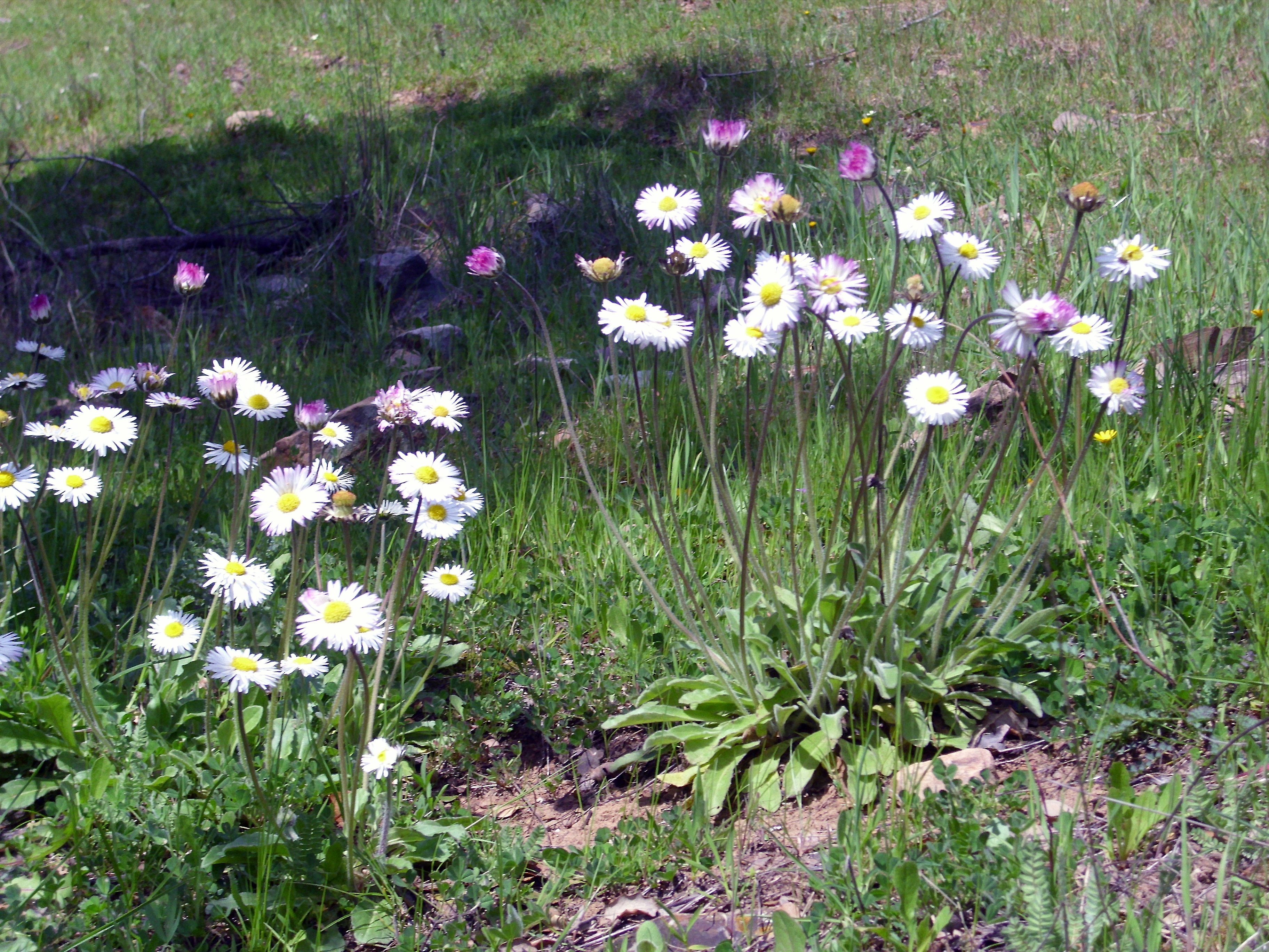 Bellis sylvestris habit, Sierra Madrona, Spain